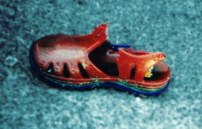 Jelly shoe (retouched)